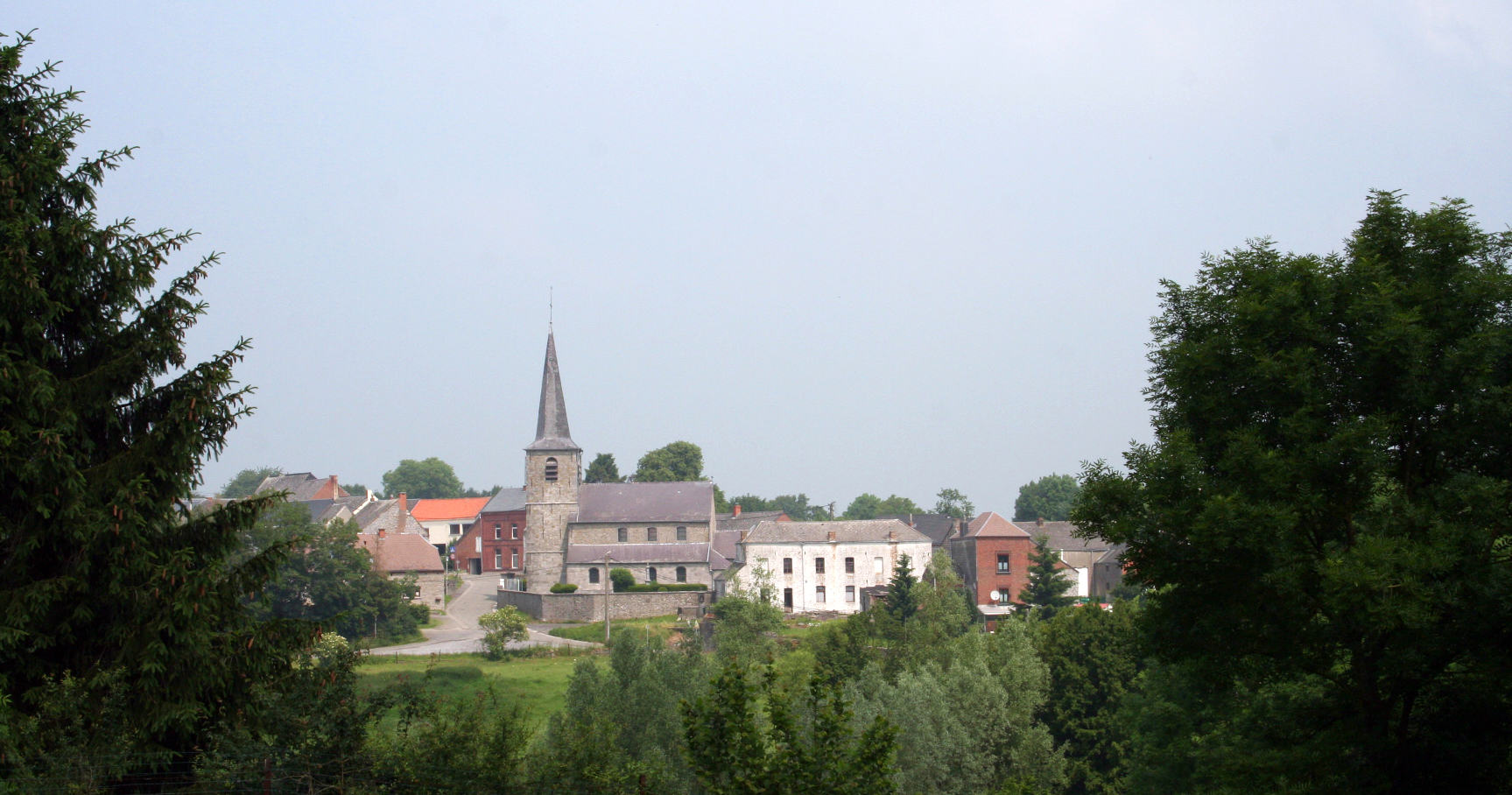 Leugnies (Belgium), South-western view of the village.